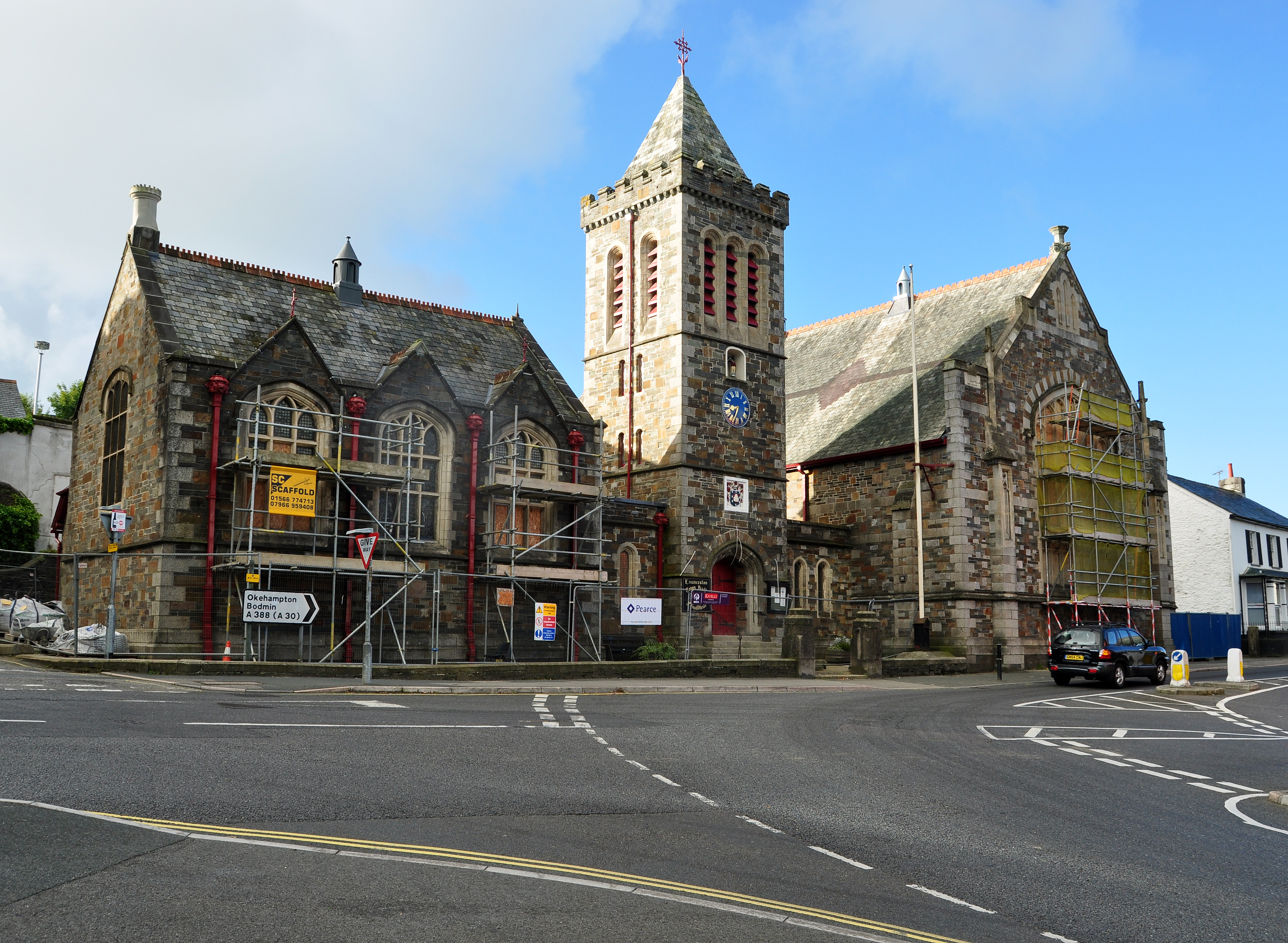 The Guildhall (left) and Town hall (right) in Launceston, Cornwall.